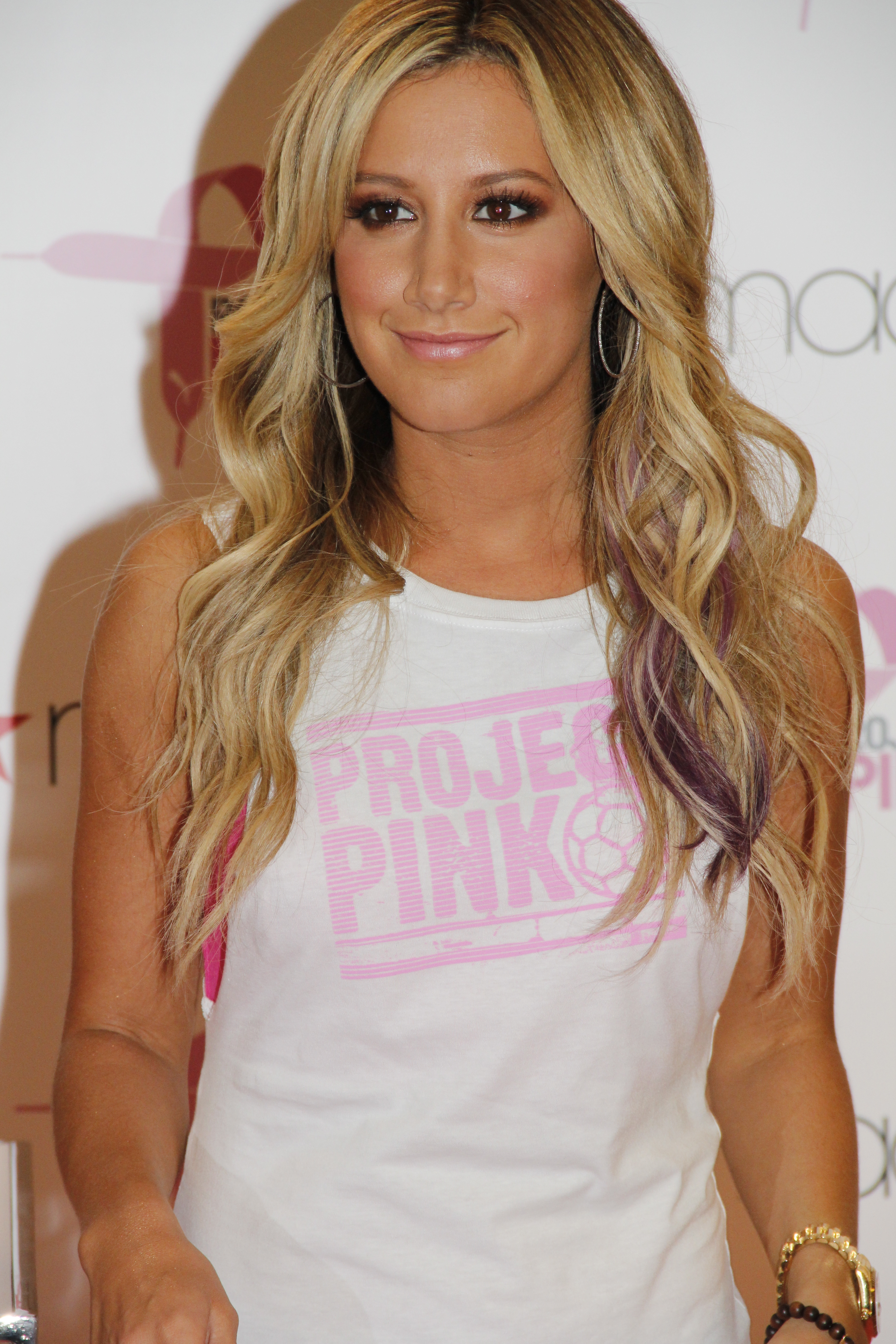 Ashley Tisdale at the Puma Project Pink, Macy*s Herald Square NYC in July 2012.